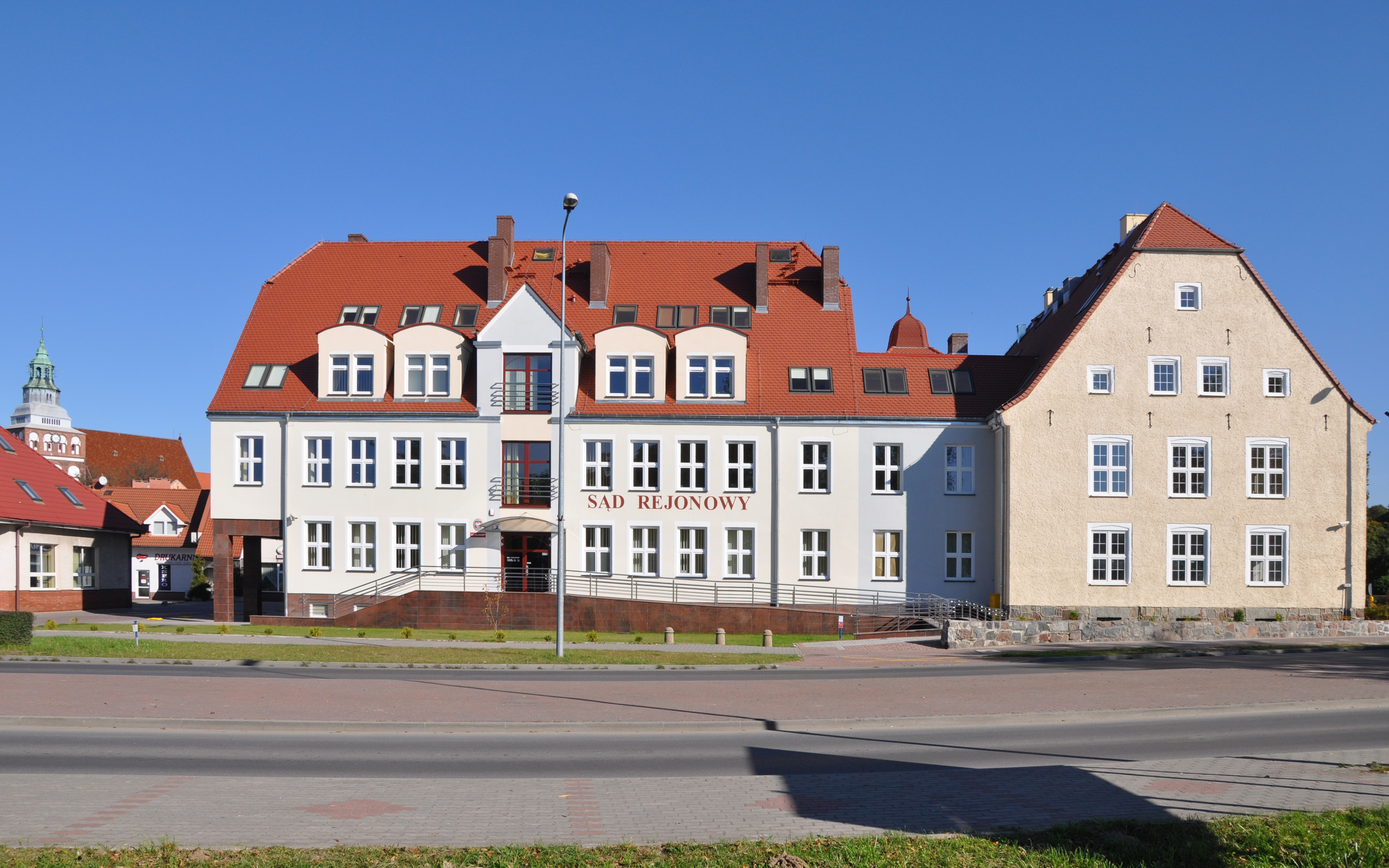 Local court building in Gryfice, front of the new part